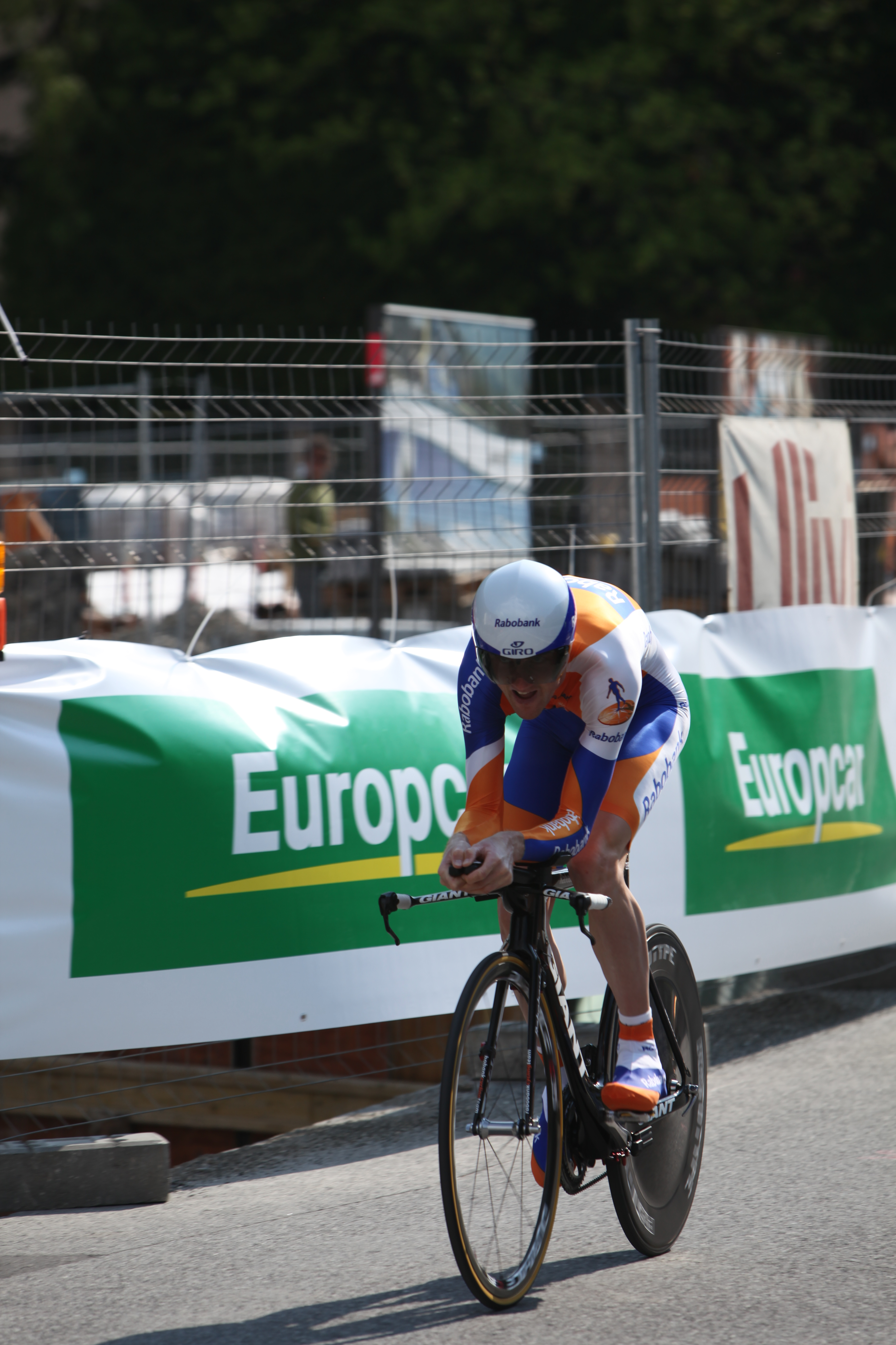 Pieter Weening at the prologue of the Tour de Romandie 2011